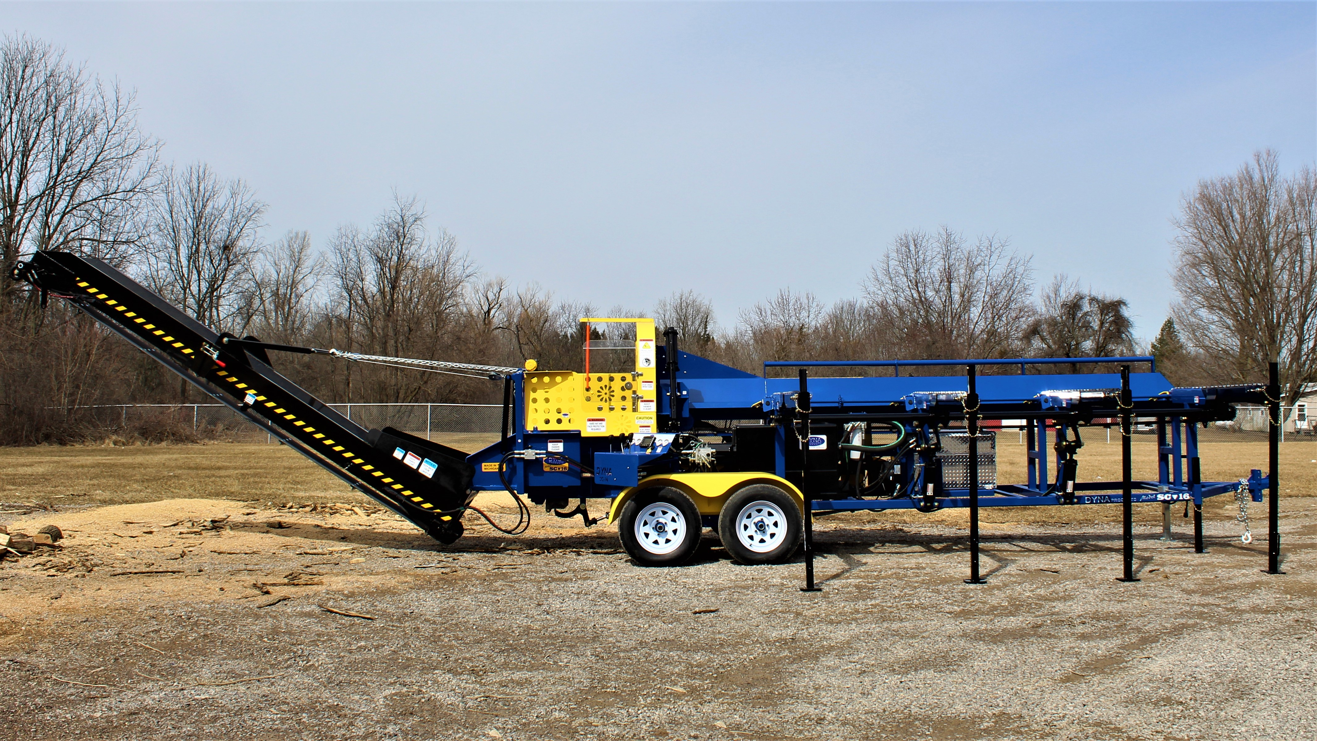 DYNA SC-16 in MIllington, MI on display